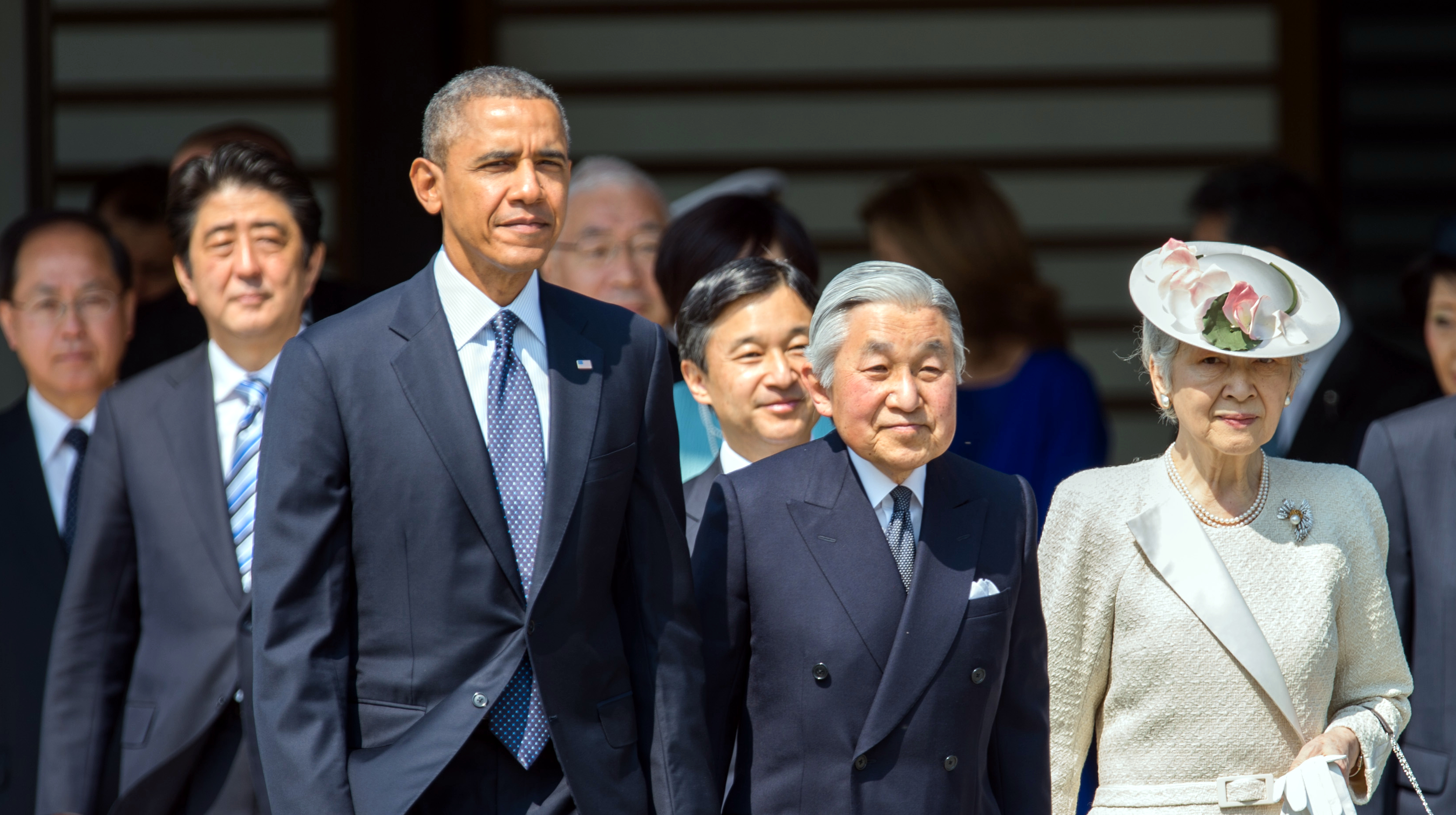 Barack Obama, President, met Emperor Akihito and Empress Michiko with Crown Prince Naruhito and Shinzō Abe, Prime Minister, at the Tokyo Imperial Palace in Chiyoda Ward, Tōkyō Metropolis on April 24, 2014.